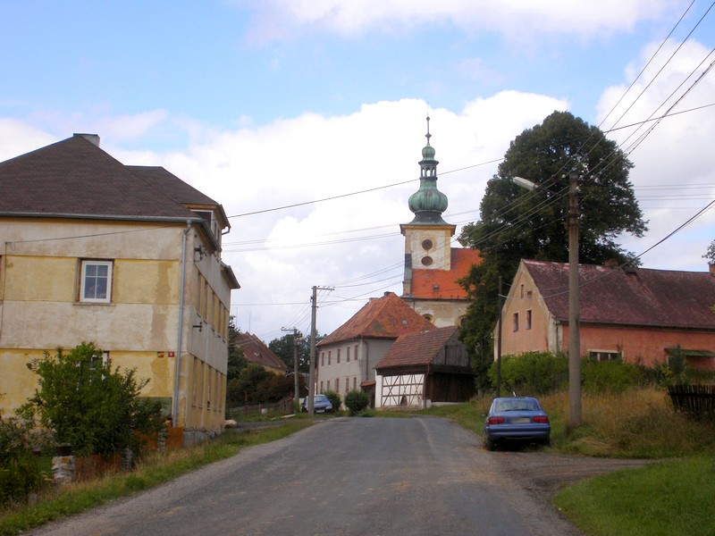 Kopanina (Nový Kostel), Cheb District, Czech Republic